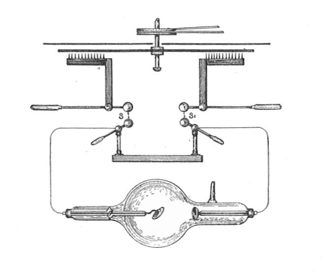 Circuit of Wimshurst machine used for X-ray radiography (Rankin Kennedy, Electrical Installations, Vol V, 1903).jpg